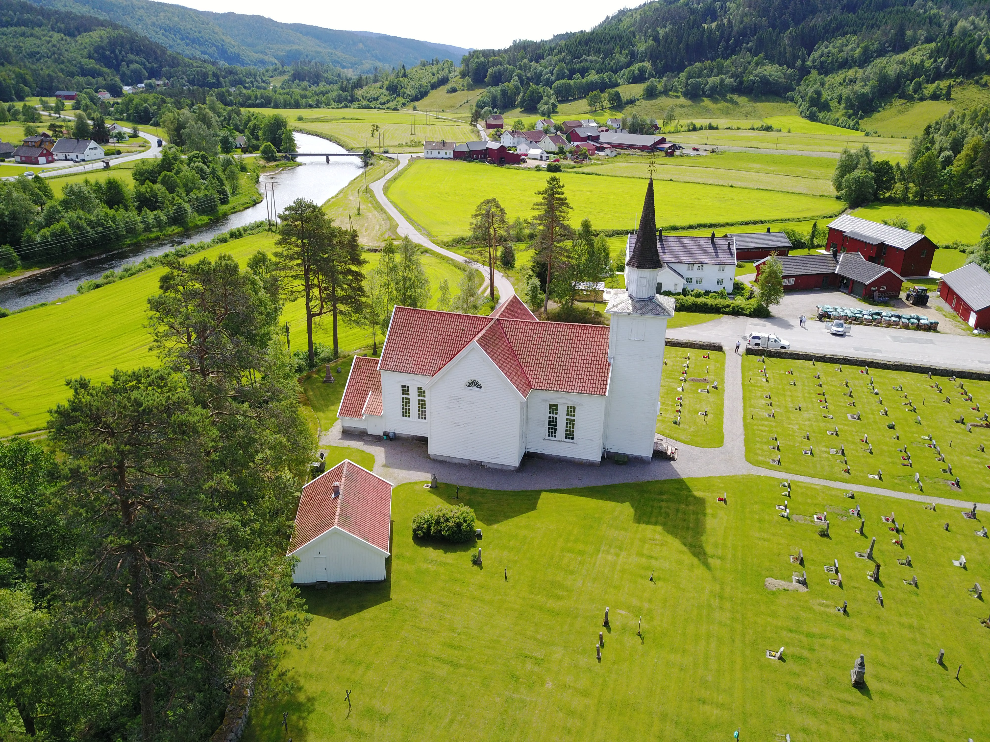 Photographs by Hans H. Haga is licensed under a Creative Commons Attribution 4.0 International License. Based on a work at